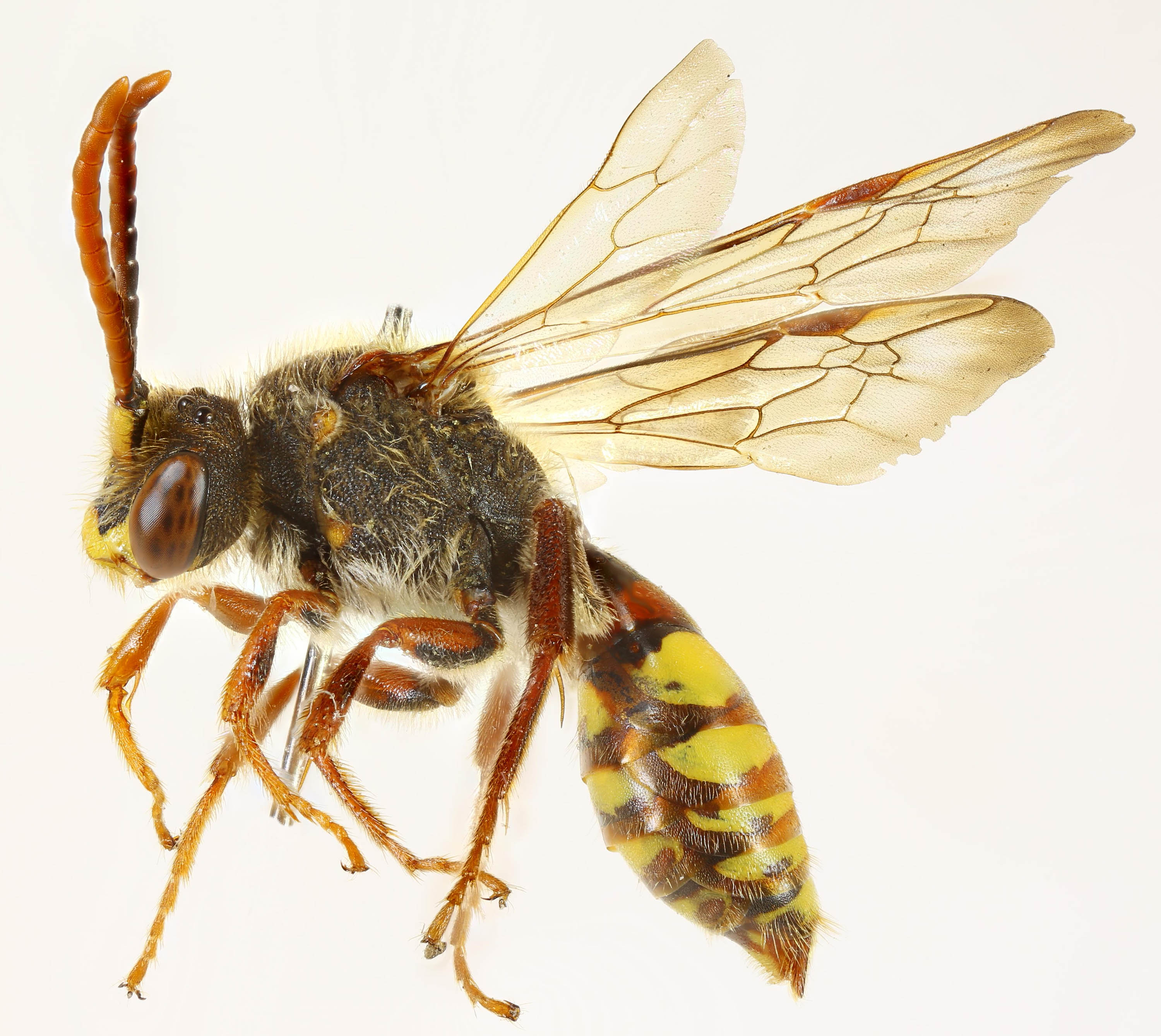 Nomada flava male, Nantlle, North Wales, May 2016